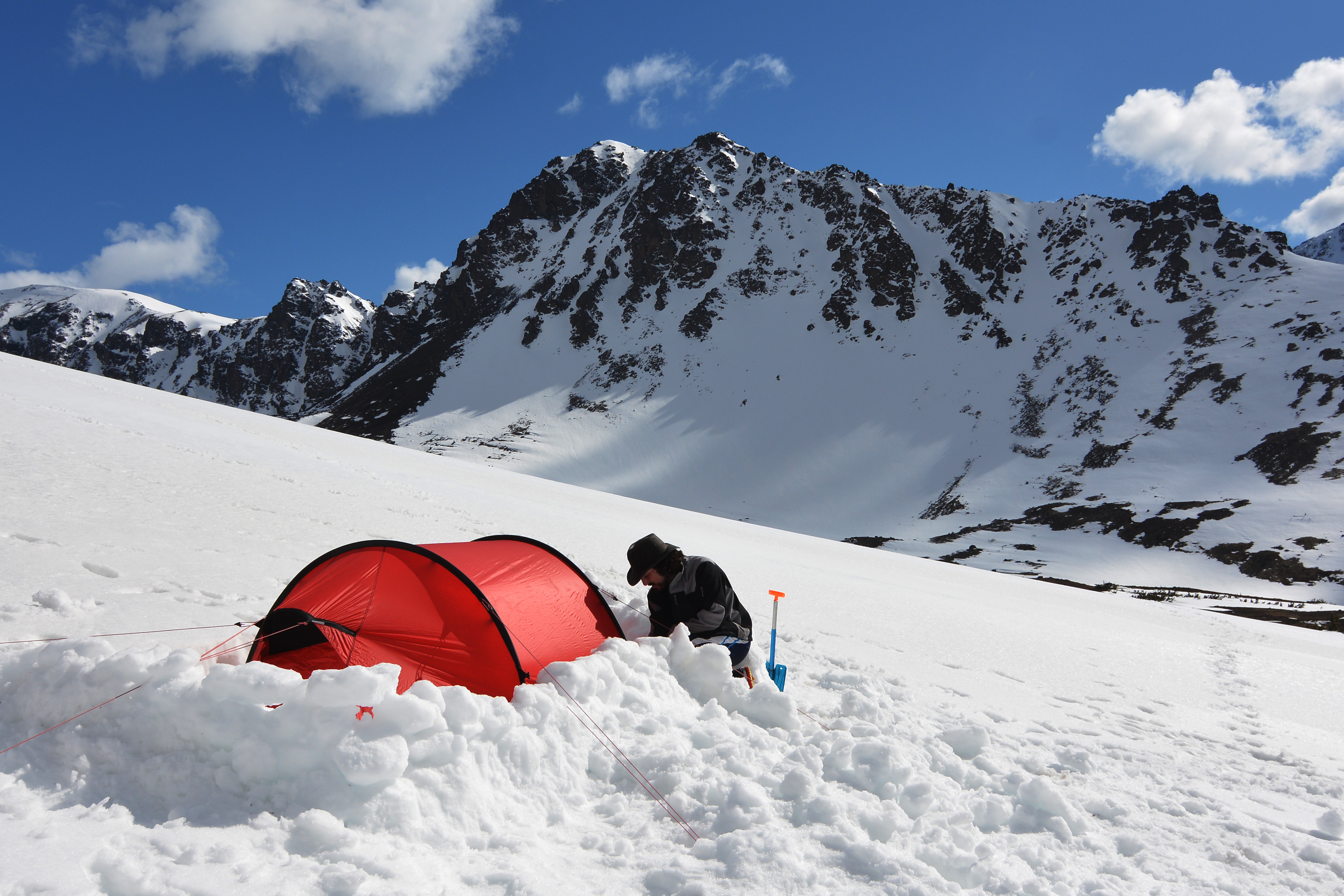 Campsite on a snowfield below the Wedge, in the Chugach Mountains of Alaska.